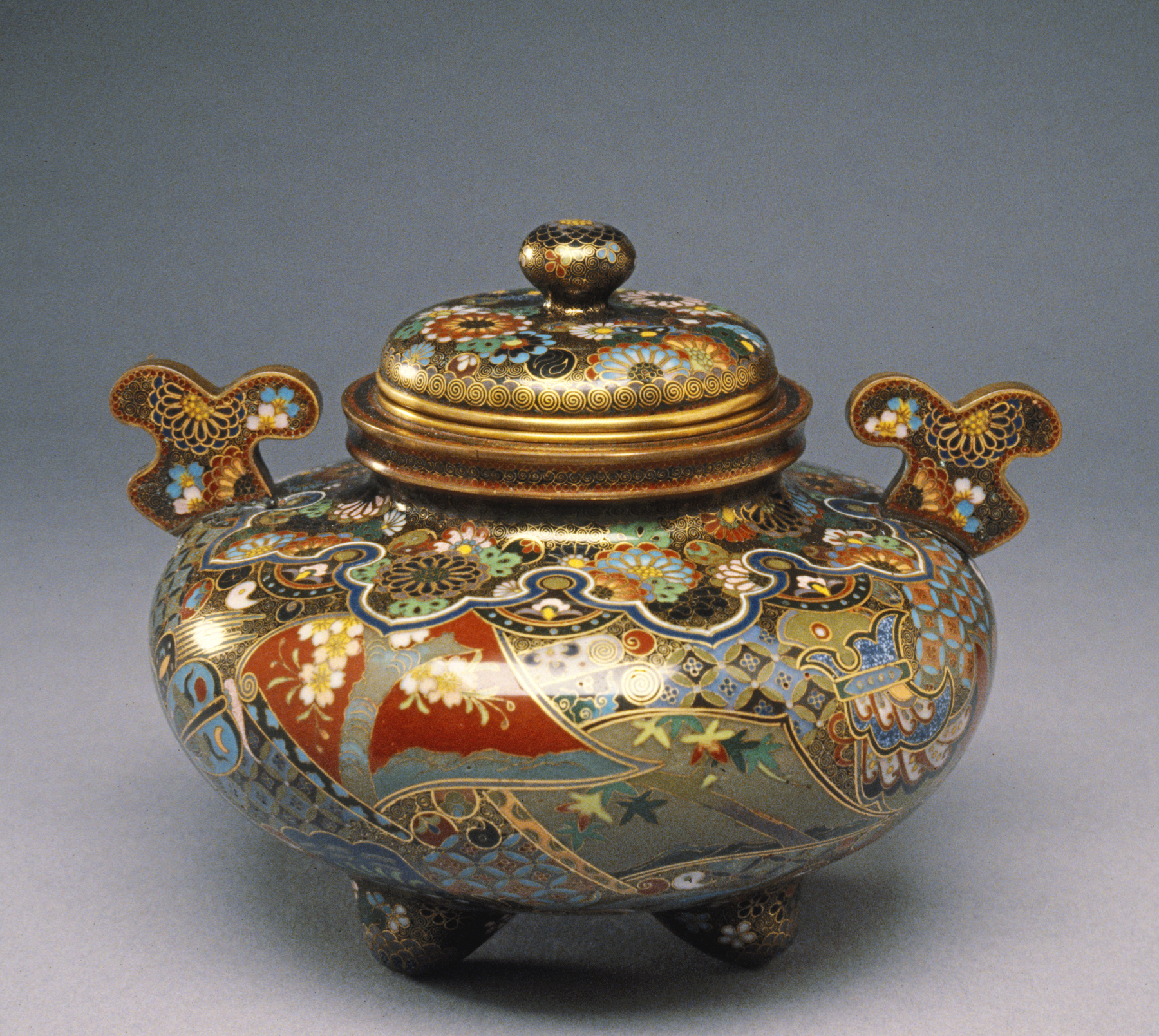 This cloisonné covered "koro" (incense burner) has applied cloisonné handles and finial. It is decorated with designs of small paintings from nature, chrysanthemums, and "takara-mono" "precious things- symbols of wealth, longevity, wisdom, beauty, harmony, purity, and protection from ill-omen.